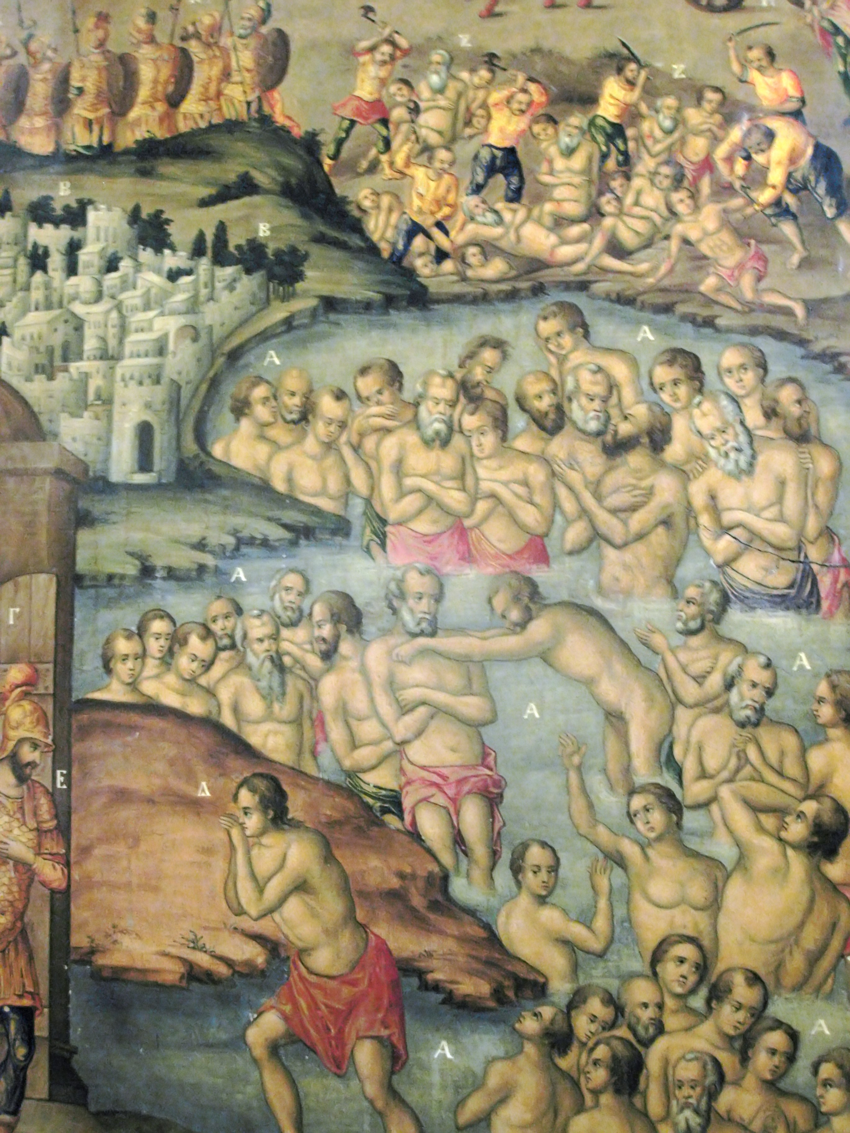 Chapel of the Forty Martyrs ib the Church of the Holy Seplucher